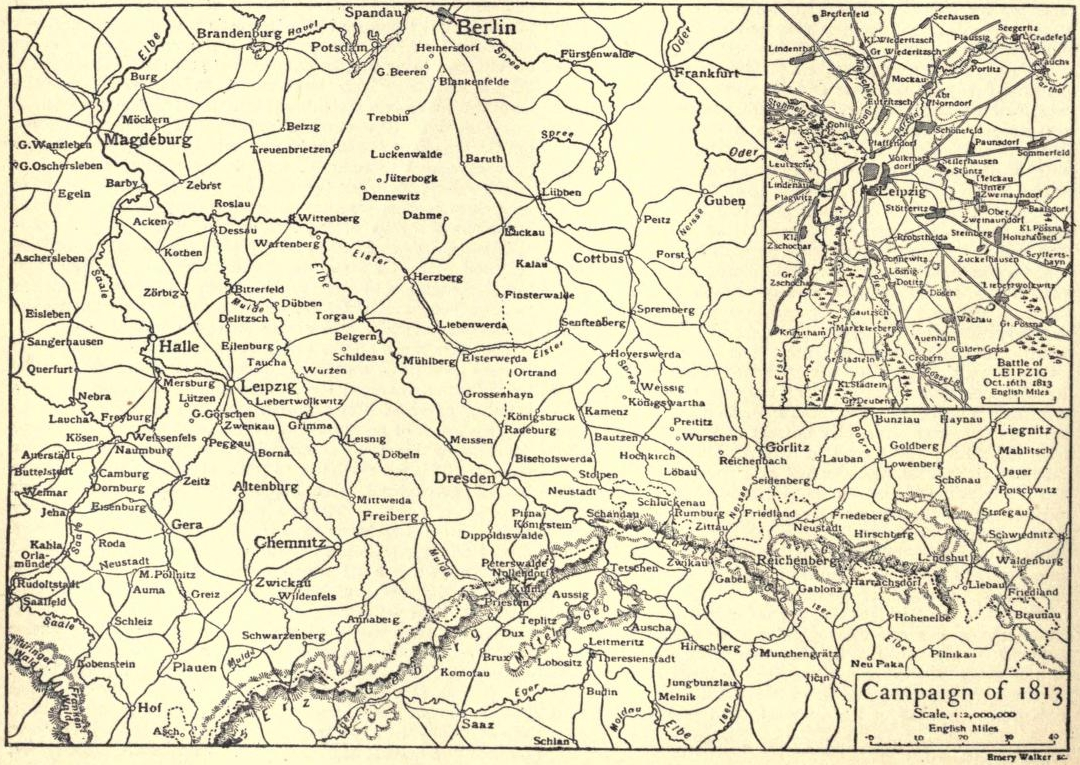 Napoleonic Campaigns: Campaign of 1813